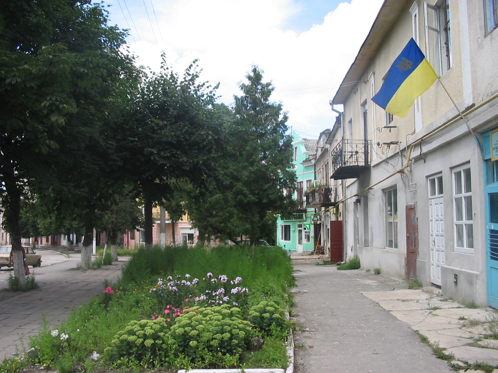 Central square in Pidhayci, Ukraine